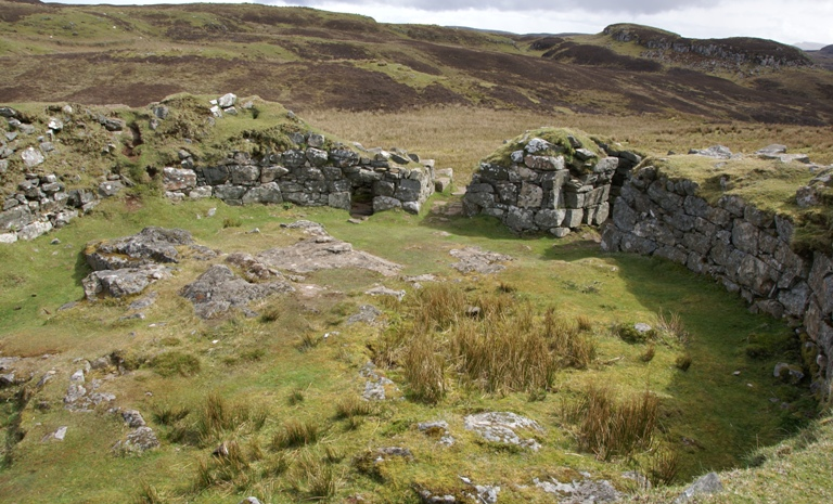 Dun Beag, Skye, Scotland - entrance (east side)